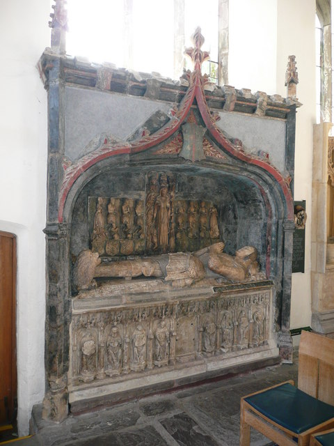 Church of St Mary, Abergavenny, Wales, monument to Sir Richard Herbert, Knight (died 1510) of Ewyas, Herefordshire, an illegitimate son of William Herbert, 1st Earl of Pembroke, and Maud ap Howell, a daughter of Adam ap Howell Graunt (Gwynn). Elaborate wall arch tomb and alabaster effigy. He married Margaret Cradock, a daughter of Sir Matthew Cradock of Swansea and of Alice (or Jane) Mancell, widow of John Malefant. Sir Matthew Cradock was receiver of Glamorgan, through whom Castleston Castle (inherited from the de Cantilupe family) passed to his daughter Margaret Cradock and her husband Sir Richard Herbert, whose son was William Herbert, 1st Earl of Pembroke (died 1570), who quartered the arms of de Cantilupe of Candleston. (see An Inventory of the Ancient Monuments in Glamorgan ..., Volume 1; Volume 3 By Royal Commission on the Ancient and Historical Monuments in Wales, pp.408-9[1]. Arms: Herbert impaling Cradock (Azure semee of cross-crosslets three boar's heads couped argent)